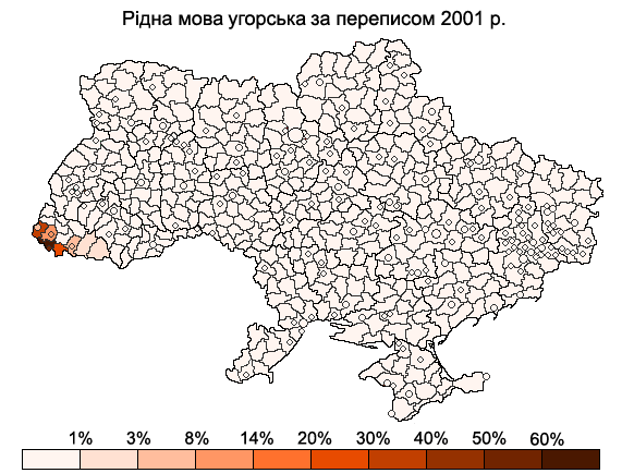 Hungarian as native language, 2001 ukrainian census